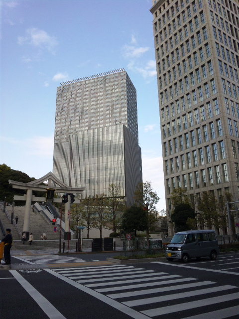 Tokyu snnnou